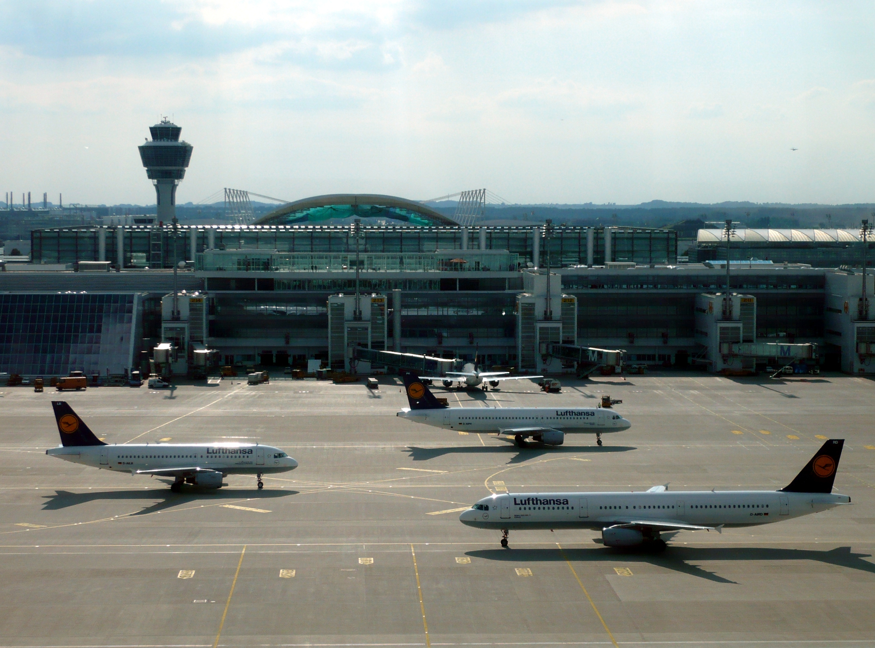 A Lufthansa Airbus A319, a A320 and a A321 photographed in front of Terminal 2 at the Munich airport.